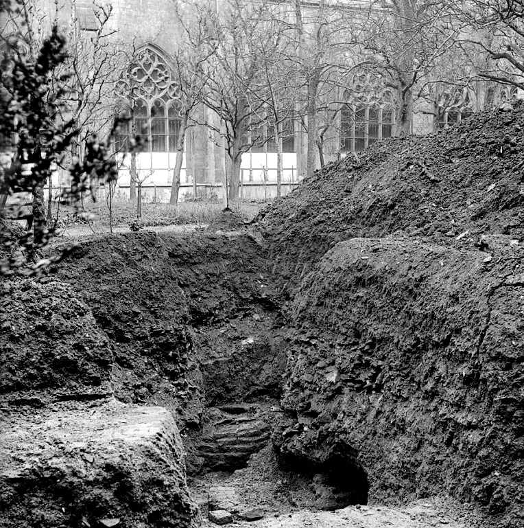 Excavations in the cloister yard of the Basilica of Saint Servatius in Maastricht, the Netherlands. During the 1916 excavations the casting mantle of the 1515 bell Grameer was discovered. The bell was removed from the westwork tower in 1983 and was given a place in the cloister yard, not far from where it was "born" more than 500 years ago.